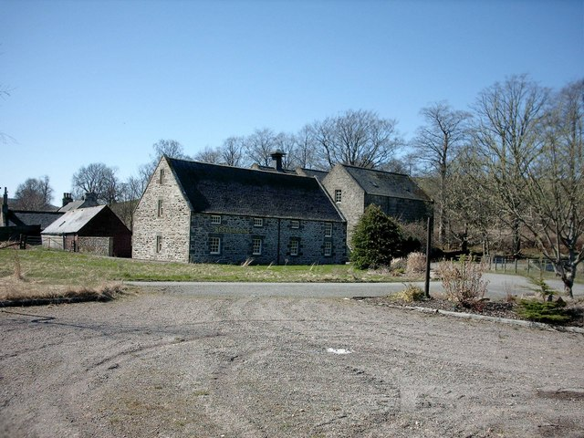 Mill of Towie, near Drummuir. The former Mill has been restored and until recently was a restaurant and a craft shop and farm shop, but unfortunately it now seems to be closed.